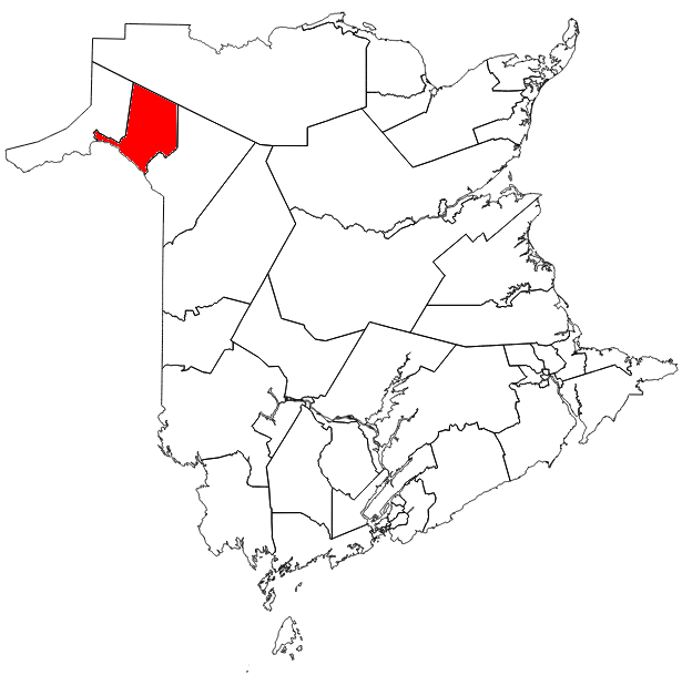 The riding of Edmundston-Madawaska Centre in relation to other New Brunswick electoral districts.